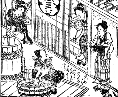 Houswives gossip at village pump in Edo period Japan on "Tokaidochu Hizakurige" vol. 5a, pp. 13-4